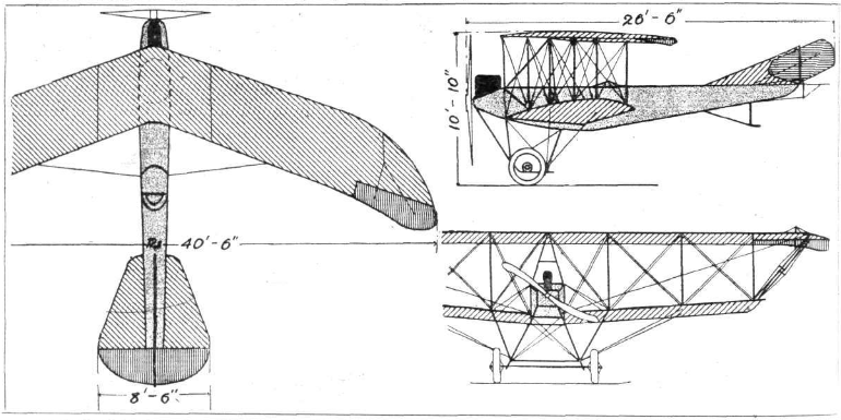 LFG (Roland) Arrow